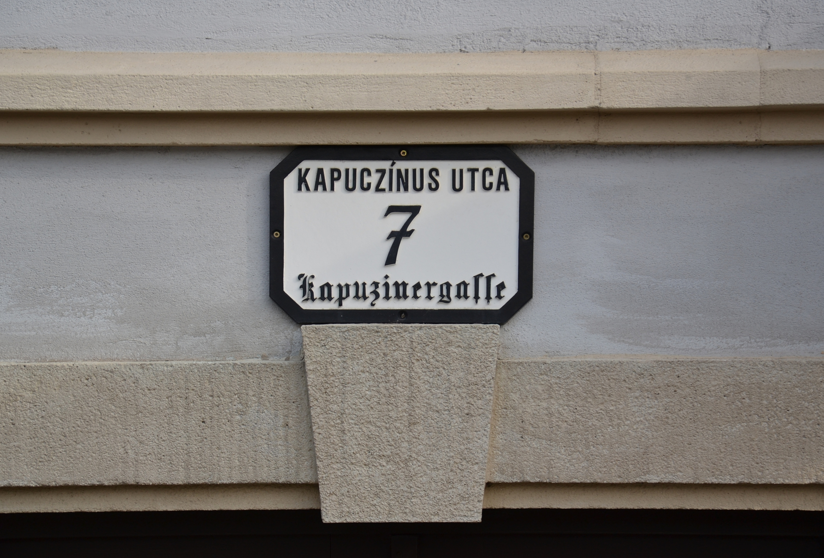 Bratislava (Pressburg, Pozsony), Kapucínska street - old hungarian-german street sign